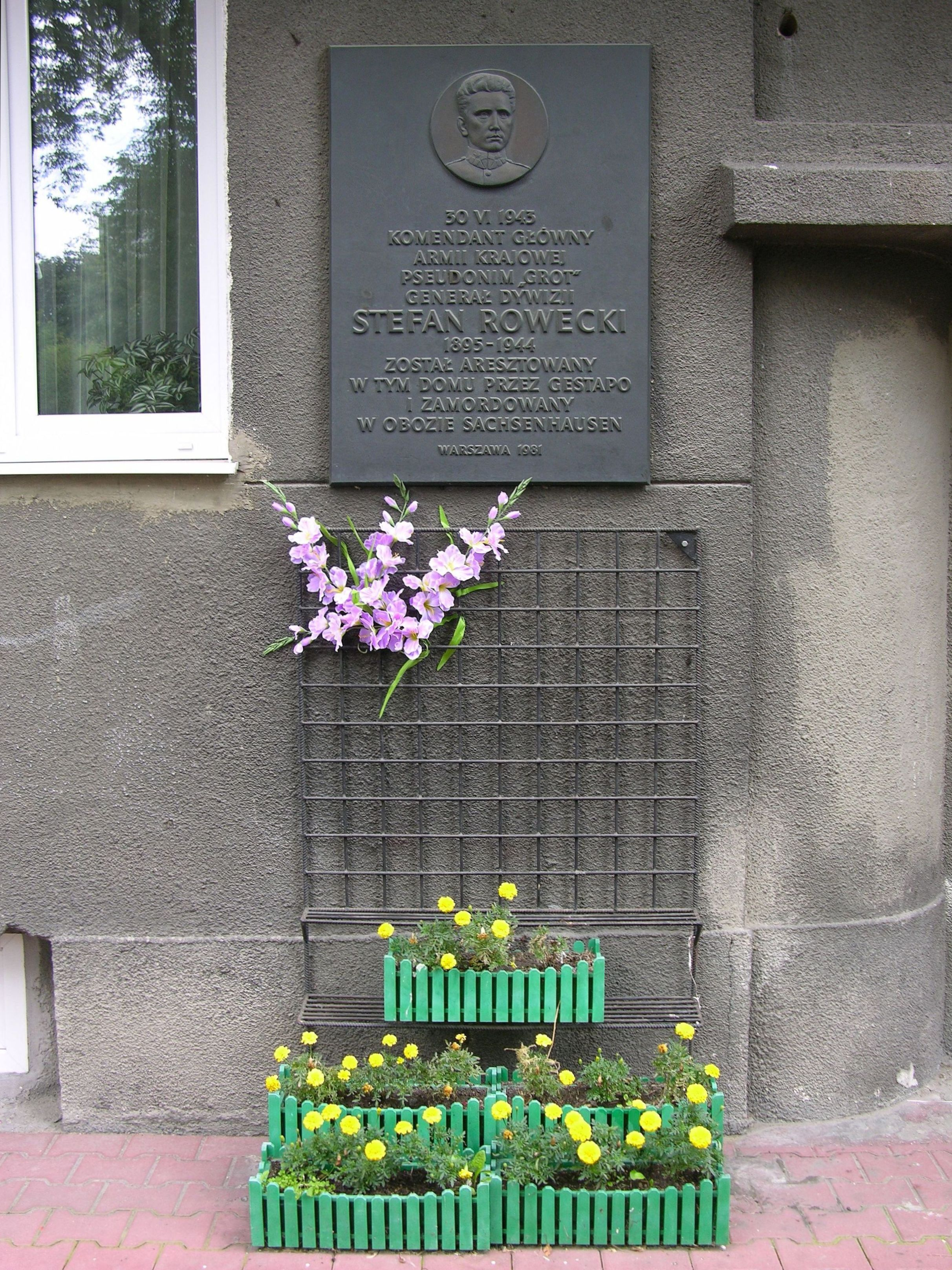 Plaque in memory of Stefan Grot-Rowecki at 14 Spiska Street in Warsaw